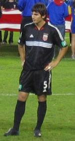 Photo of Facundo Erpen taken by me at a D.C. United game at Robert F. Kennedy Memorial Stadium.